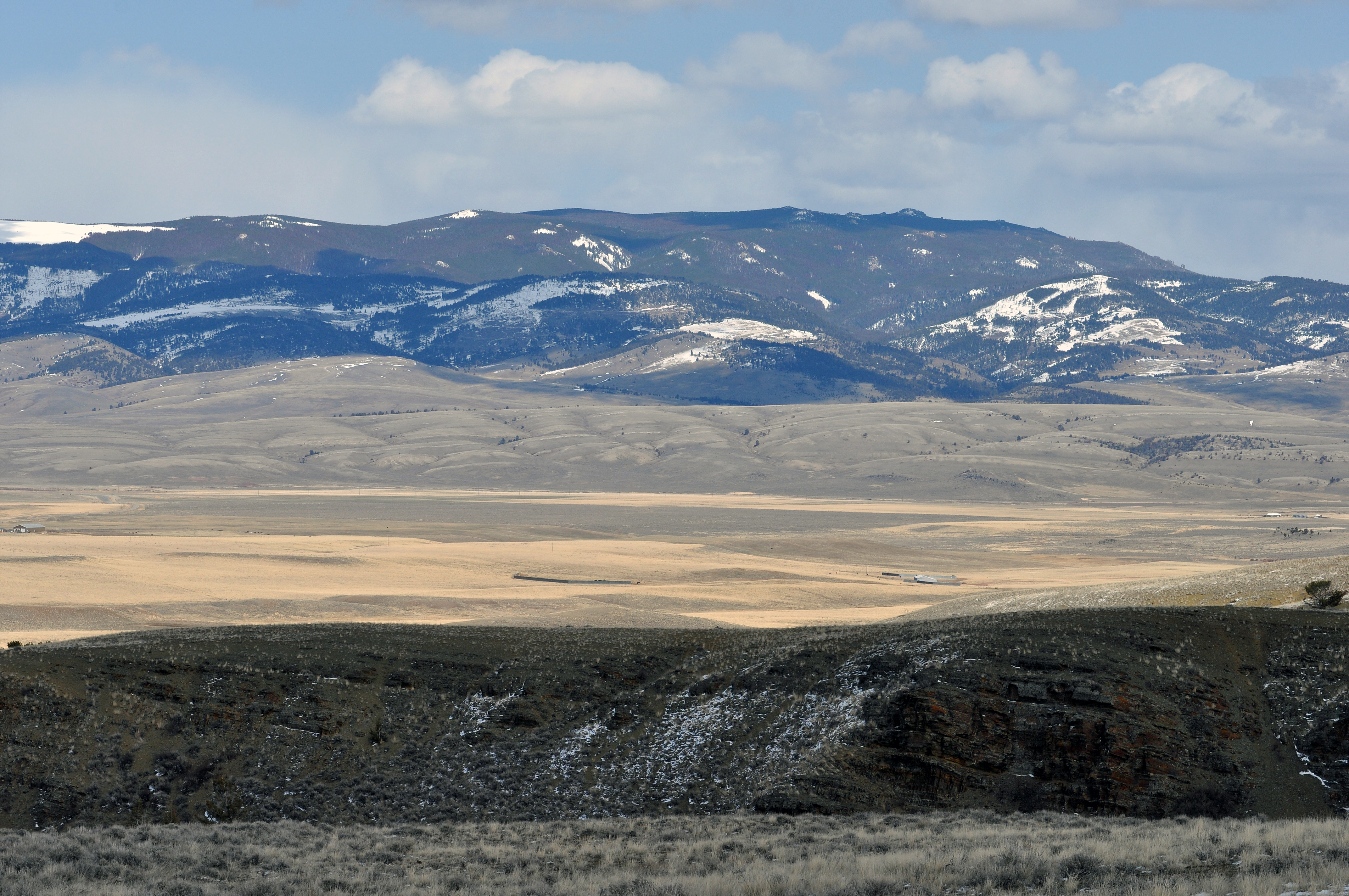 Western face of Castle Mountains, Meagher County, Montana, April 2010